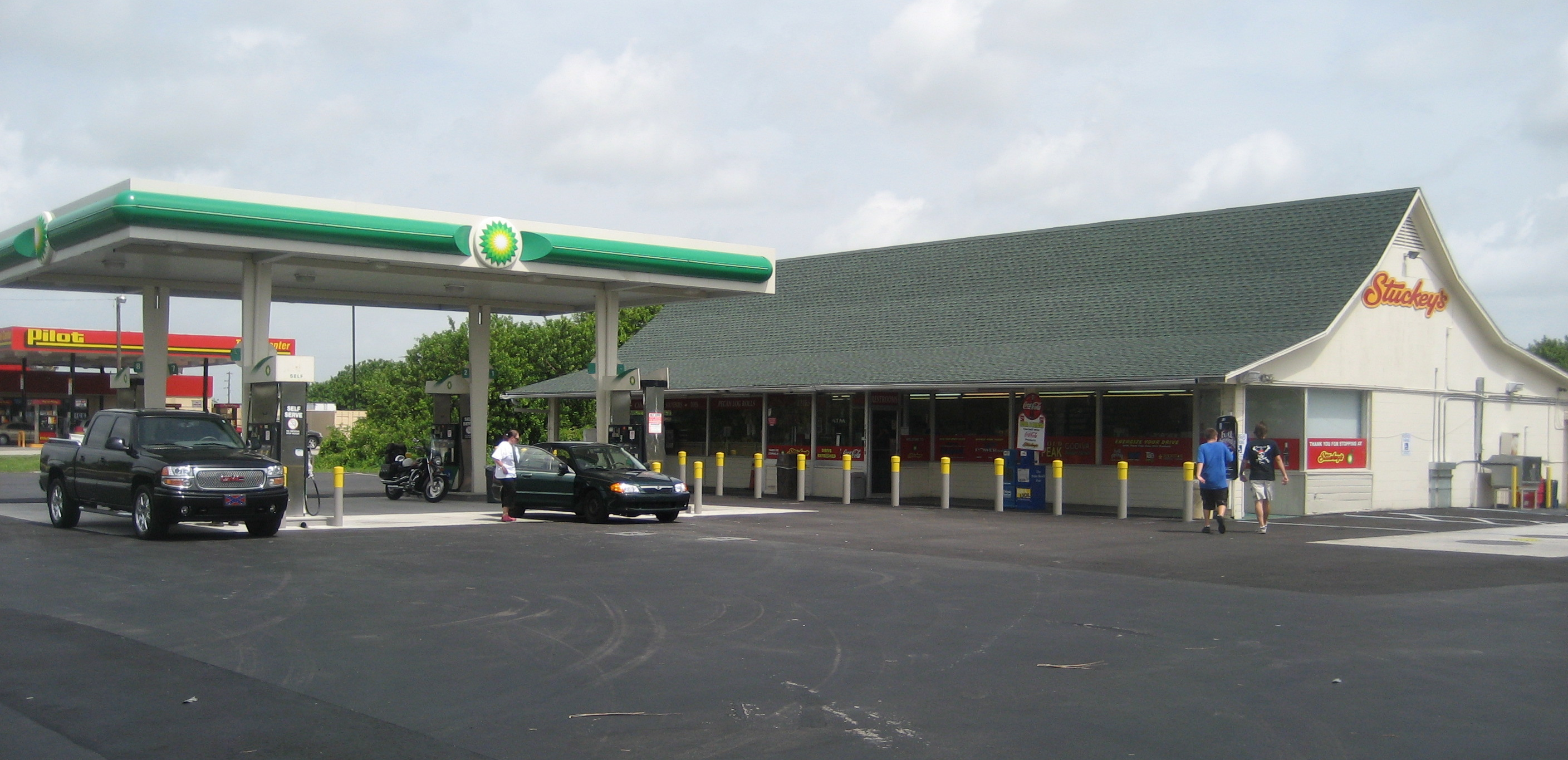 Yeehaw Junction, Florida. "Stuckey's" road traveler's convenience store & BP gas station.